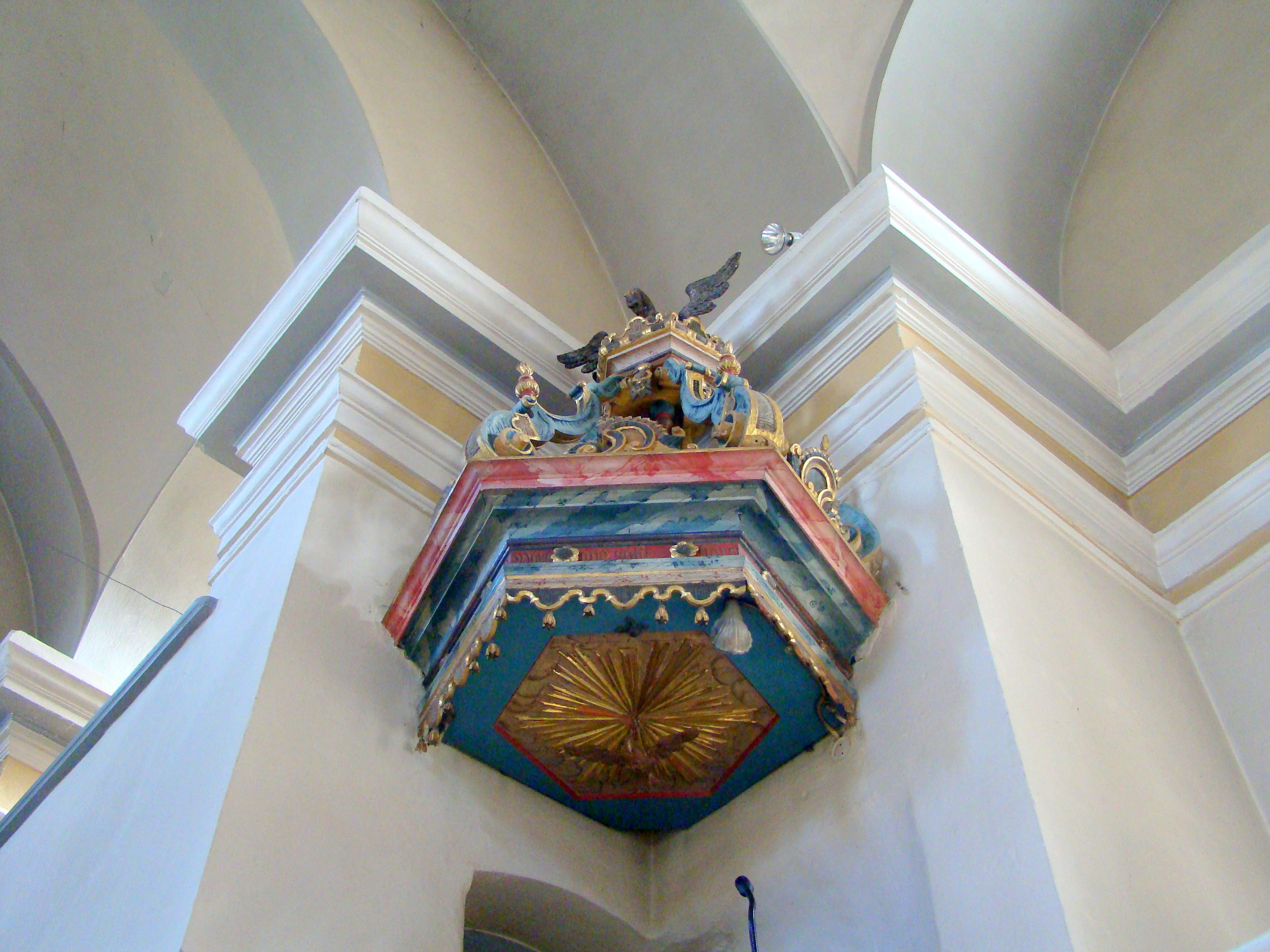 Lutheran church in Făgăraș, Brașov County, Romania